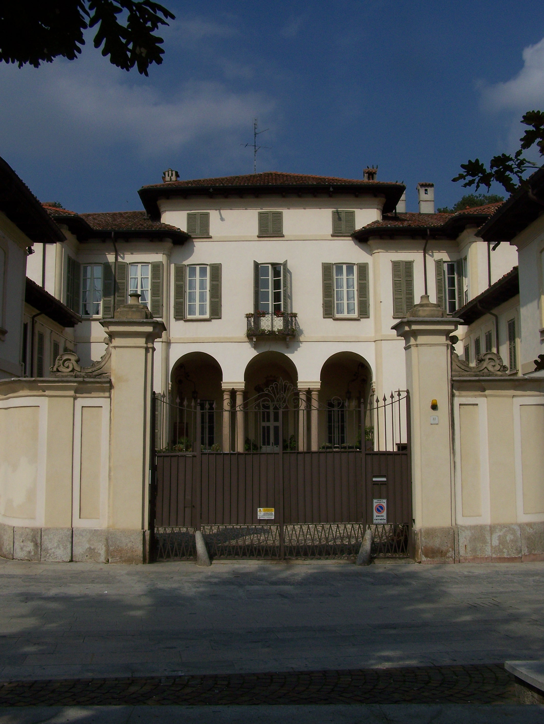 Villa Massari in Corbetta (MI) Italy